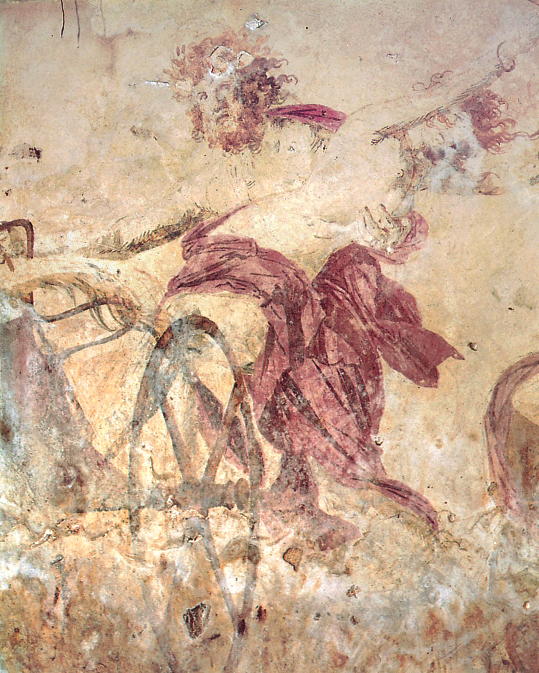 Hades abducting Persephone, wall painting in the small royal tomb at Verghina (Vergina), Macedonia.